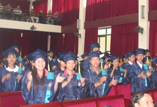 Graduated_students of Hai Phong Medical University, Viet Nam